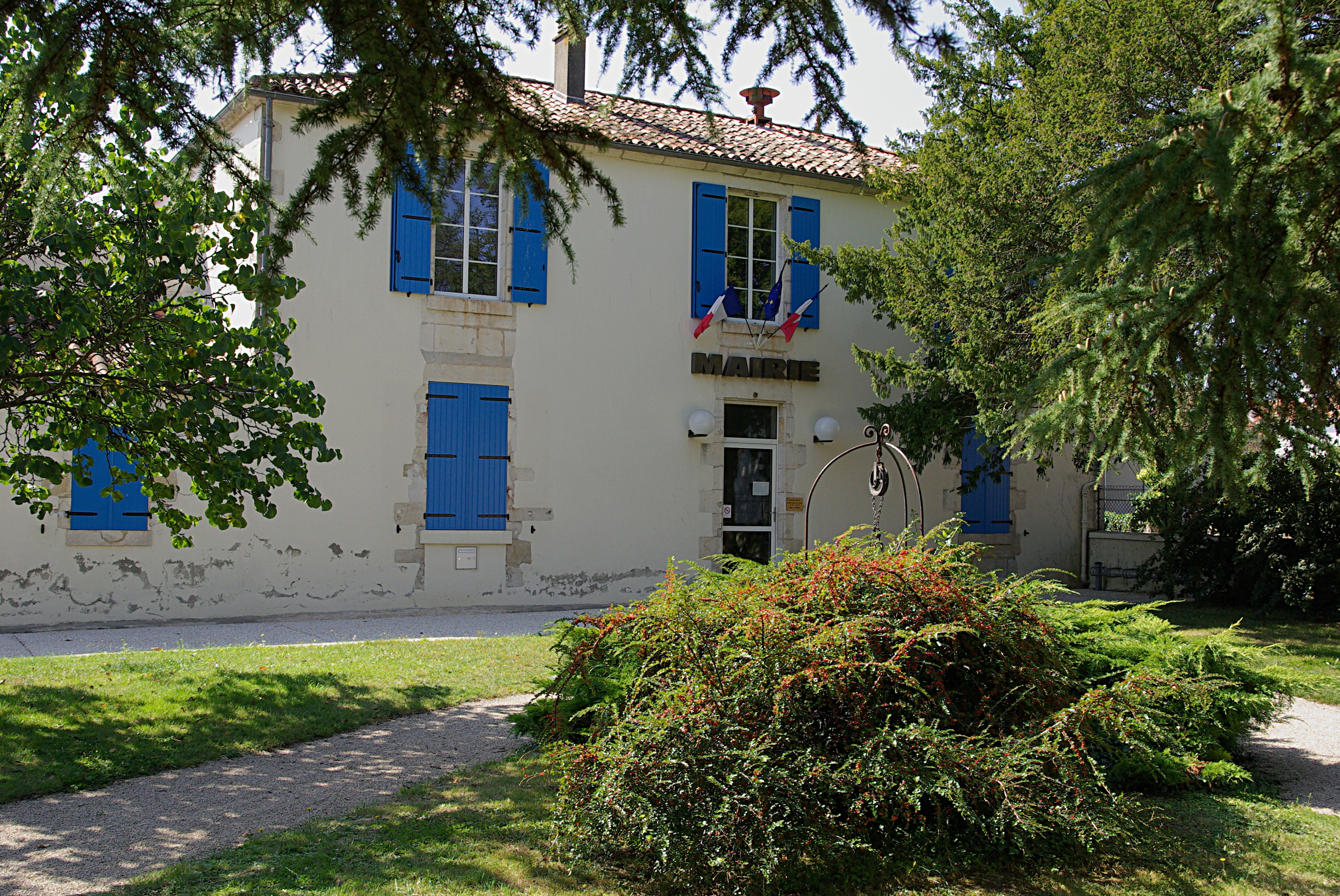 The town hall of Maillé in vendée.